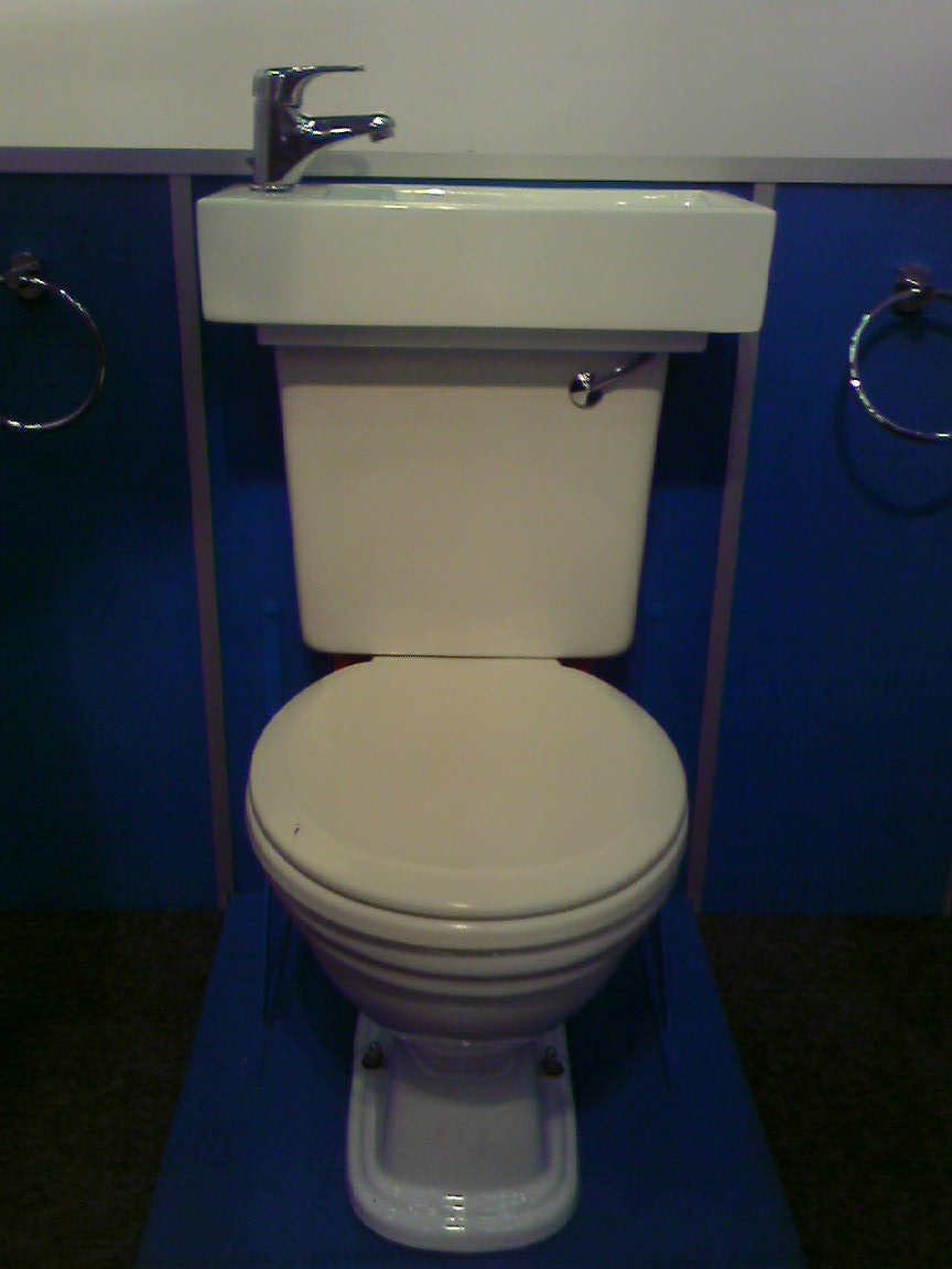 Greywater recycling